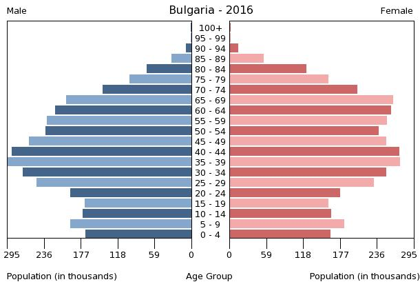 The population pyramid of Bulgaria illustrates the age and sex structure of population and may provide insights about political and social stability, as well as economic development. The population is distributed along the horizontal axis, with males shown on the left and females on the right. The male and female populations are broken down into 5-year age groups represented as horizontal bars along the vertical axis, with the youngest age groups at the bottom and the oldest at the top. The shape of the population pyramid gradually evolves over time based on fertility, mortality, and international migration trends.